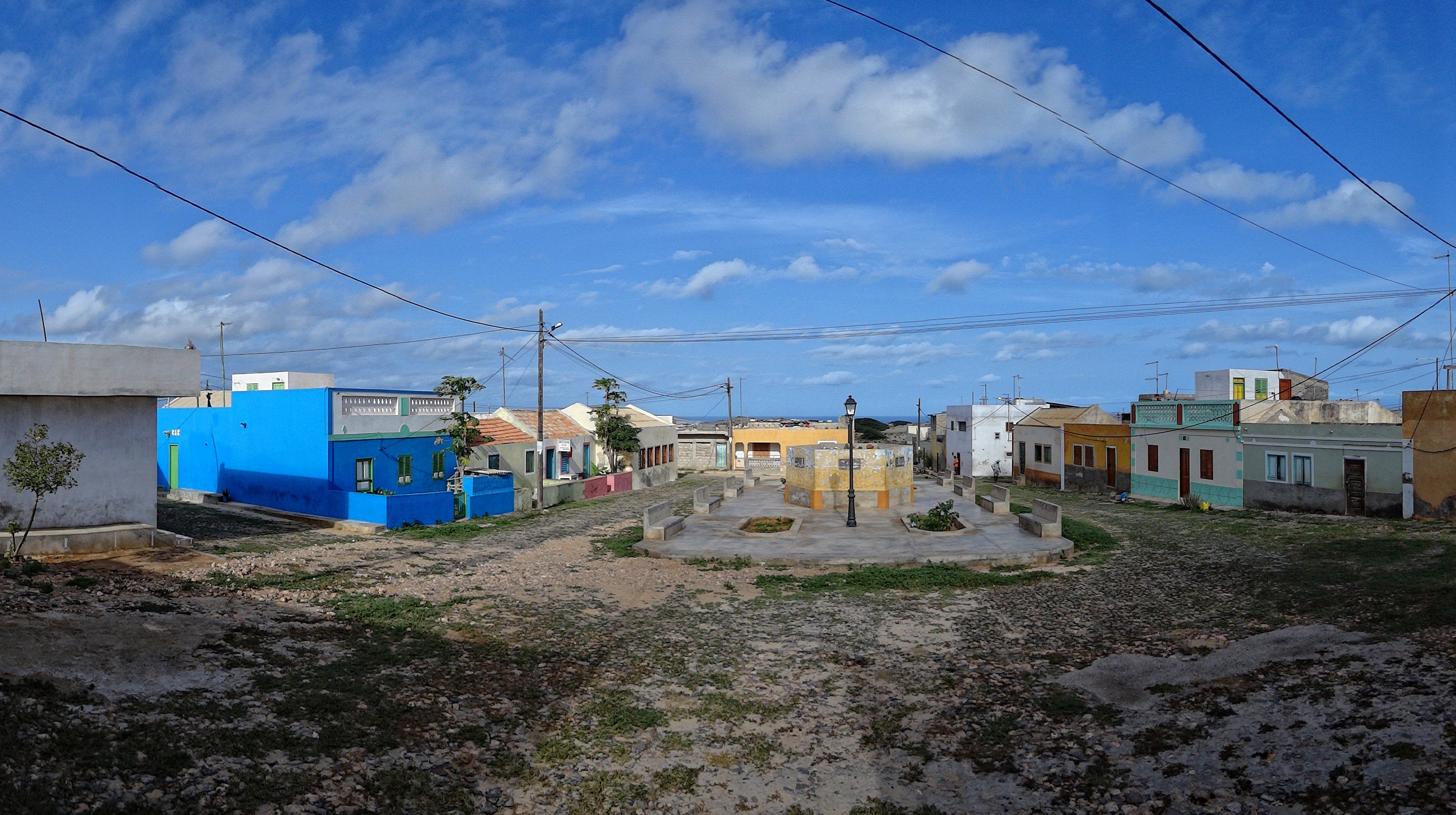 The square in Bofareira, Boa Vista, Cape Verde, photographed from south-east towards north-west.